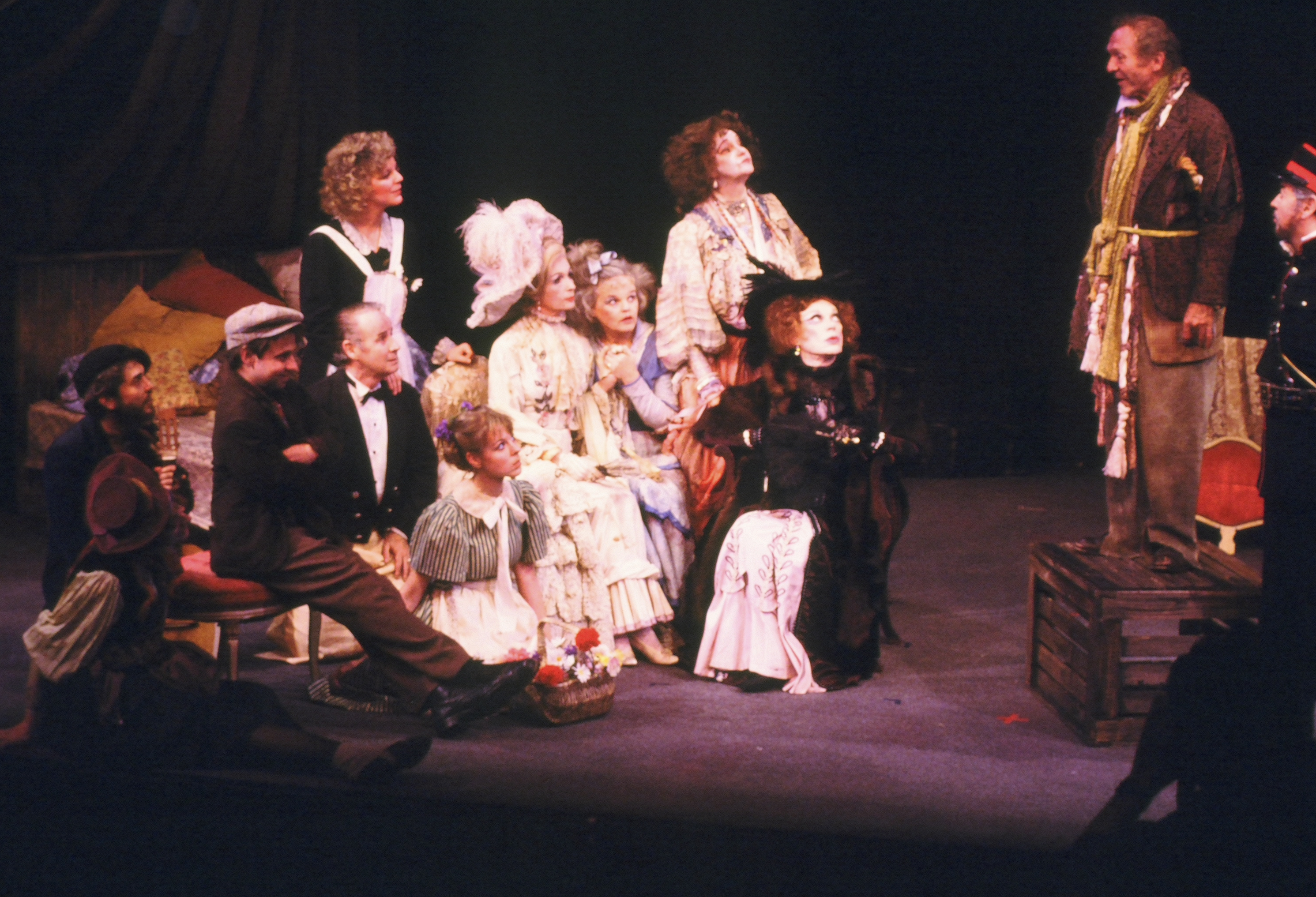 A still from the MRC's production of The Madwoman of Chaillot.